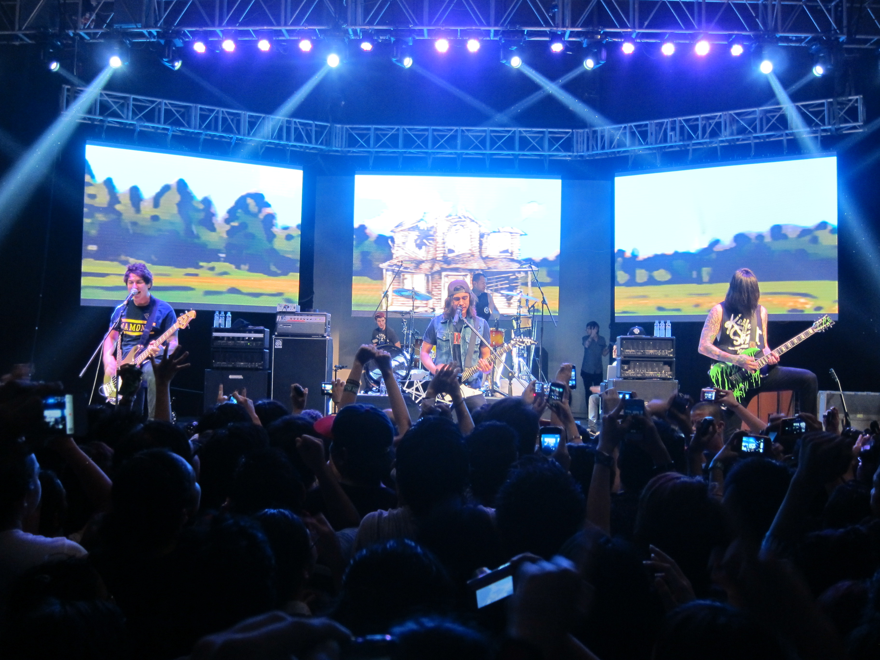 Pierce the Veil performing at the Skydome, SM City North EDSA, Quezon City, Metro Manila, Philippines, on February 16, 2013. Tagalog: Itinanghal ang Pierce the Veil sa Skydome ng SM City North EDSA, Lungsod Quezon, Kalakhang Maynila, Pilipinas, noong 16 Pebrero 2013.